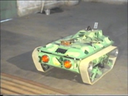 All terranean robot